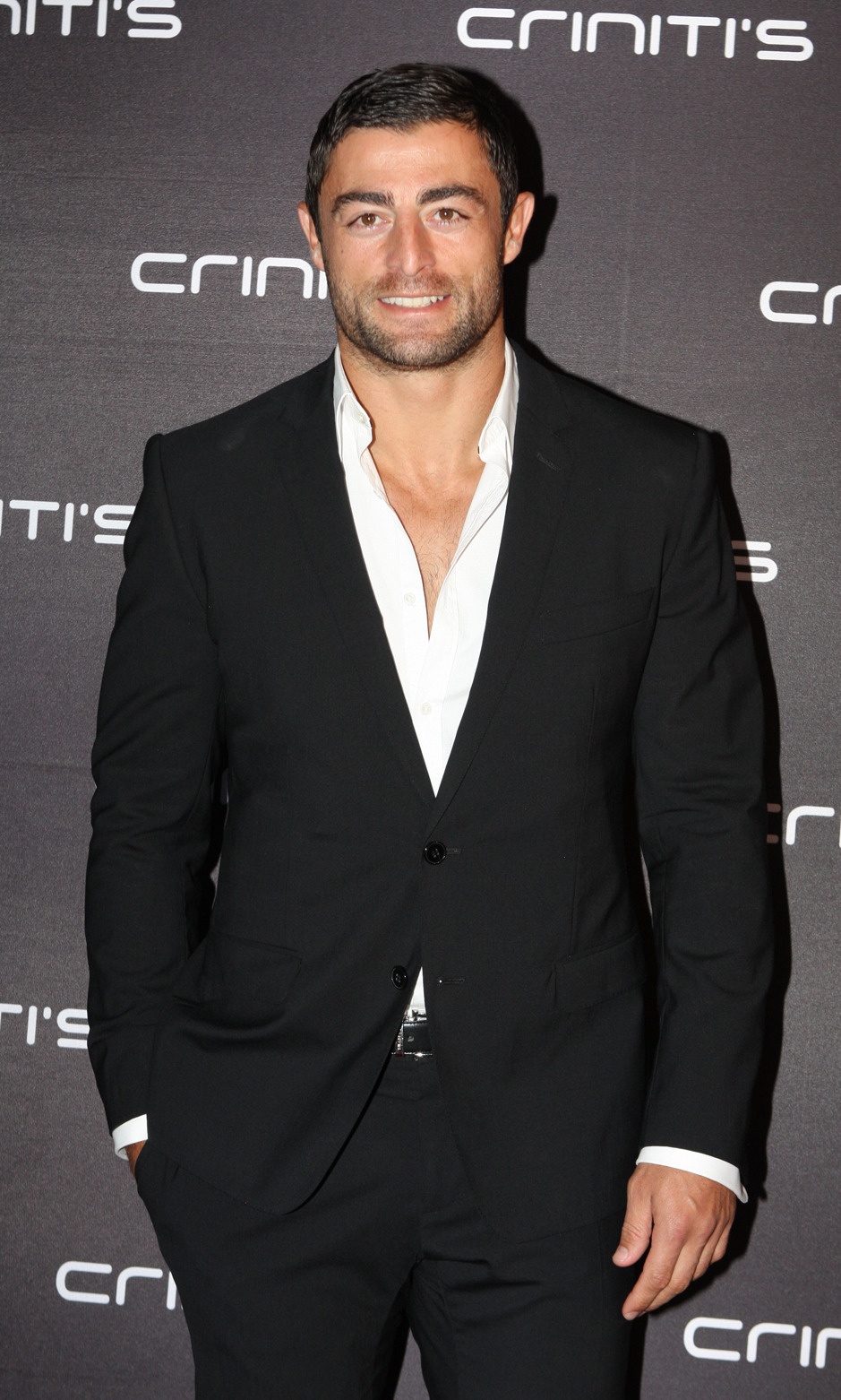 Criniti's celebrated their tenth birthday and rolled out the red carpet tonight. Celebrity guests were treated to their ten most popular dishes. Media... Walking the red carpet and celebrating Criniti's milestone birthday will be Australian television personality Charlotte Dawson, Australian singer Ricki Lee Coulter, Australian model Rachael Finch, former rugby league player Jason Stevens, Roosters star Anthony Minichiello, as well as Home & Away stars Dan Ewing, Rhiannon Fish and Lisa Gornley, The Living Room's Barry Du Bois and Miguel Maestre, The Morning Show's Lizzy Lovette, MTV's Keiynan Lonsdale, Jason and Beck Stevens from Sydney Weekender, Michelle and Martin Walsh from Chadwicks, as well as player from Sydney FC, Manly Sea Eagles and the Roosters. The celebrations will continue as one lucky person will win an all-expenses paid trip to Rome worth over $10,000, plus a three litre bottle of Veuve Clicquot. 2012 X Factor winner, Samantha Jade, will be entertaining guests on the night, with an intimate performance of her number one hit single What You've Done to Me. Celebs: Charlotte Dawson, Ricki Lee Coulter, Rachael Finch, Anthony Minichiello, Dan Ewing and more. Websites Criniti's Eva Rinaldi Photography Eva Rinaldi Photography Flickr